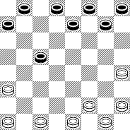 Opening "Otkazannaya gorodskaya partiya" (Отказанная городская партия) in russian checkers